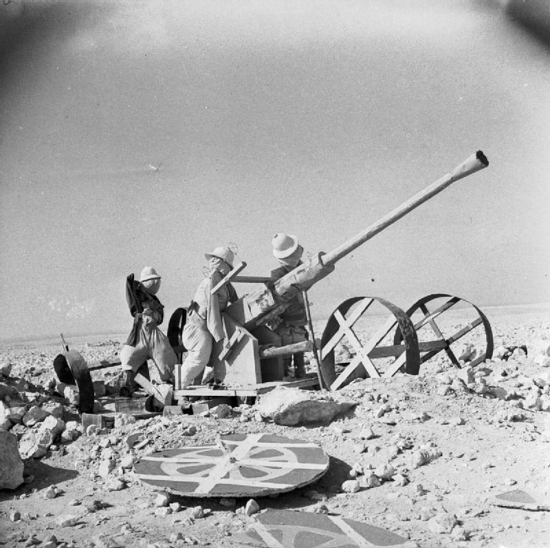 The British Army in North Africa 1942 A dummy Bofors gun and crew in the Western Desert, June 1942.